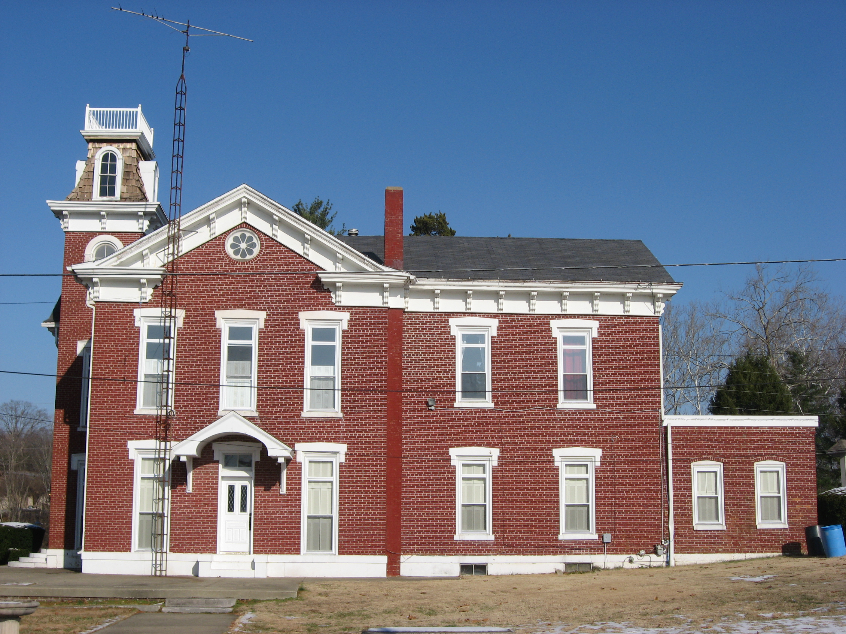 Southern side of the William A. Ragsdale House, located at 607 Tunnelton Road on the eastern edge of Bedford, Indiana, United States. Built in 1865, it is listed on the National Register of Historic Places. It is part of the Otis Park and Golf Course, which is separately listed on the Register.